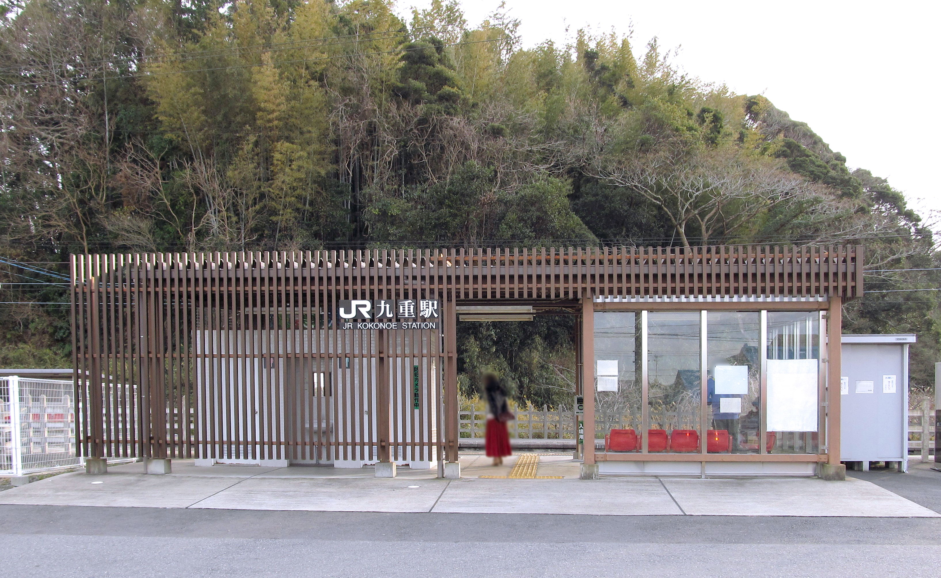 The building of Kokonoe Station on the Uchibō Line in Tateyama city, Chiba prefecture, Japan